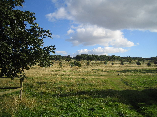 South Common.